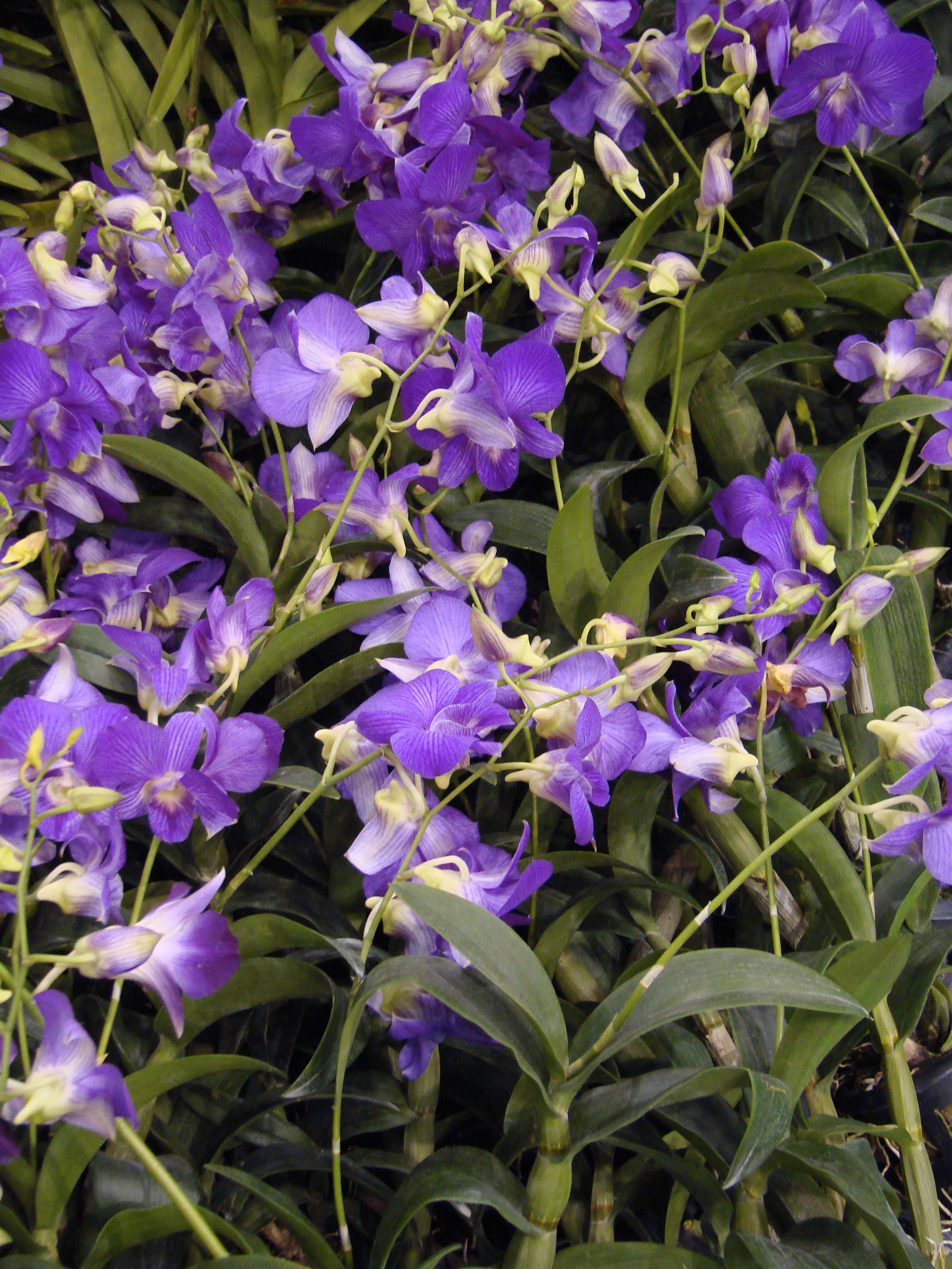 Bhatou Phul (orchid), are found in Assam and in other parts of S E Asia.